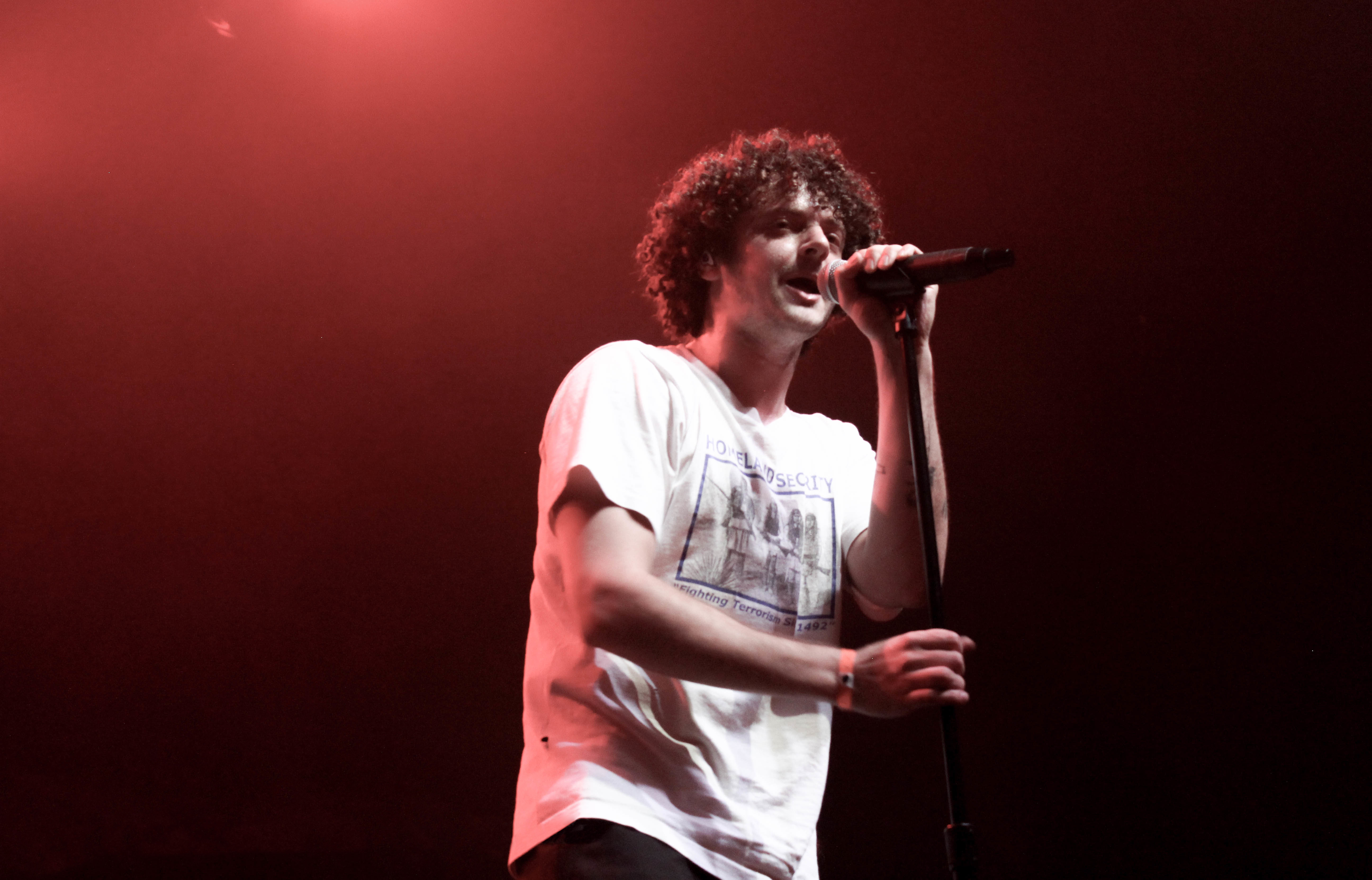 Grandson at OBC 2019